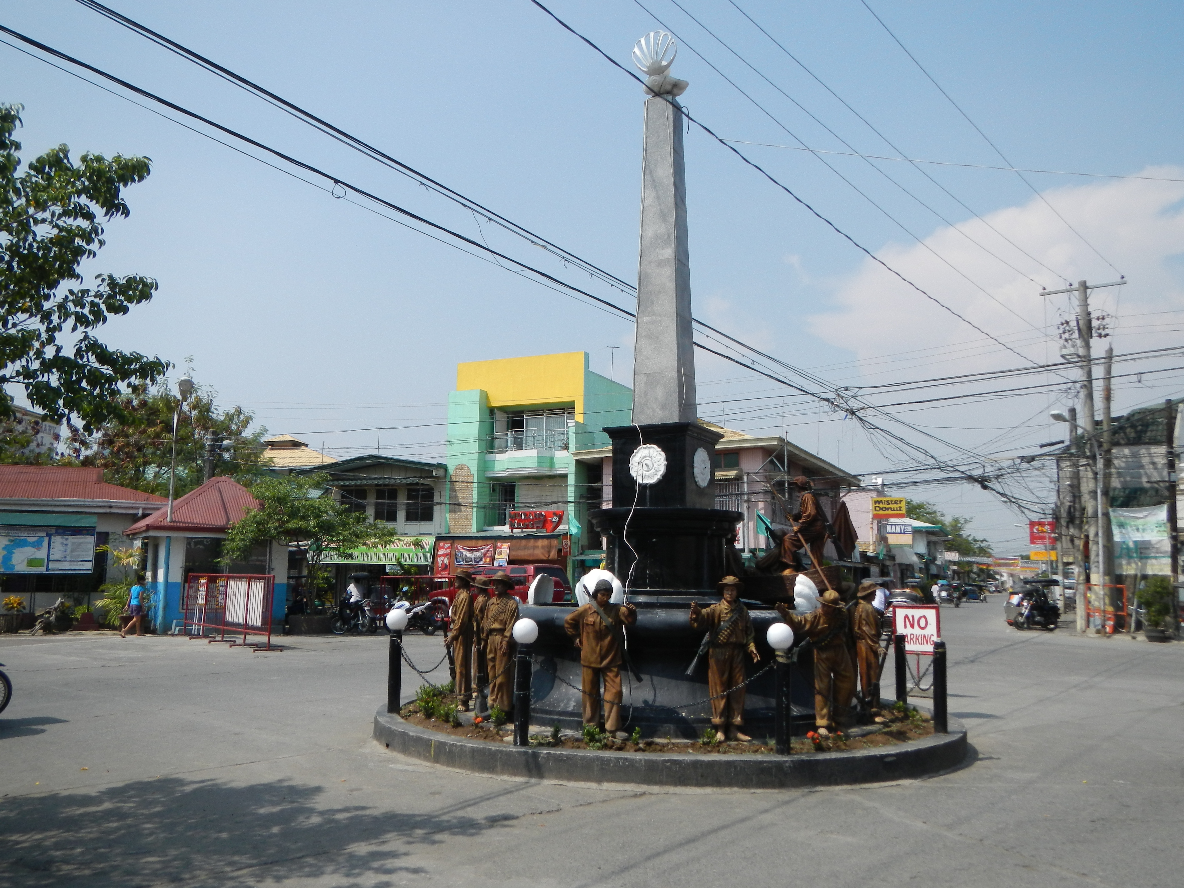 Macabebe Scouts Monument-Memorial (Poblacion, Macabebe, Pampanga), Centro, Town Proper Hall.